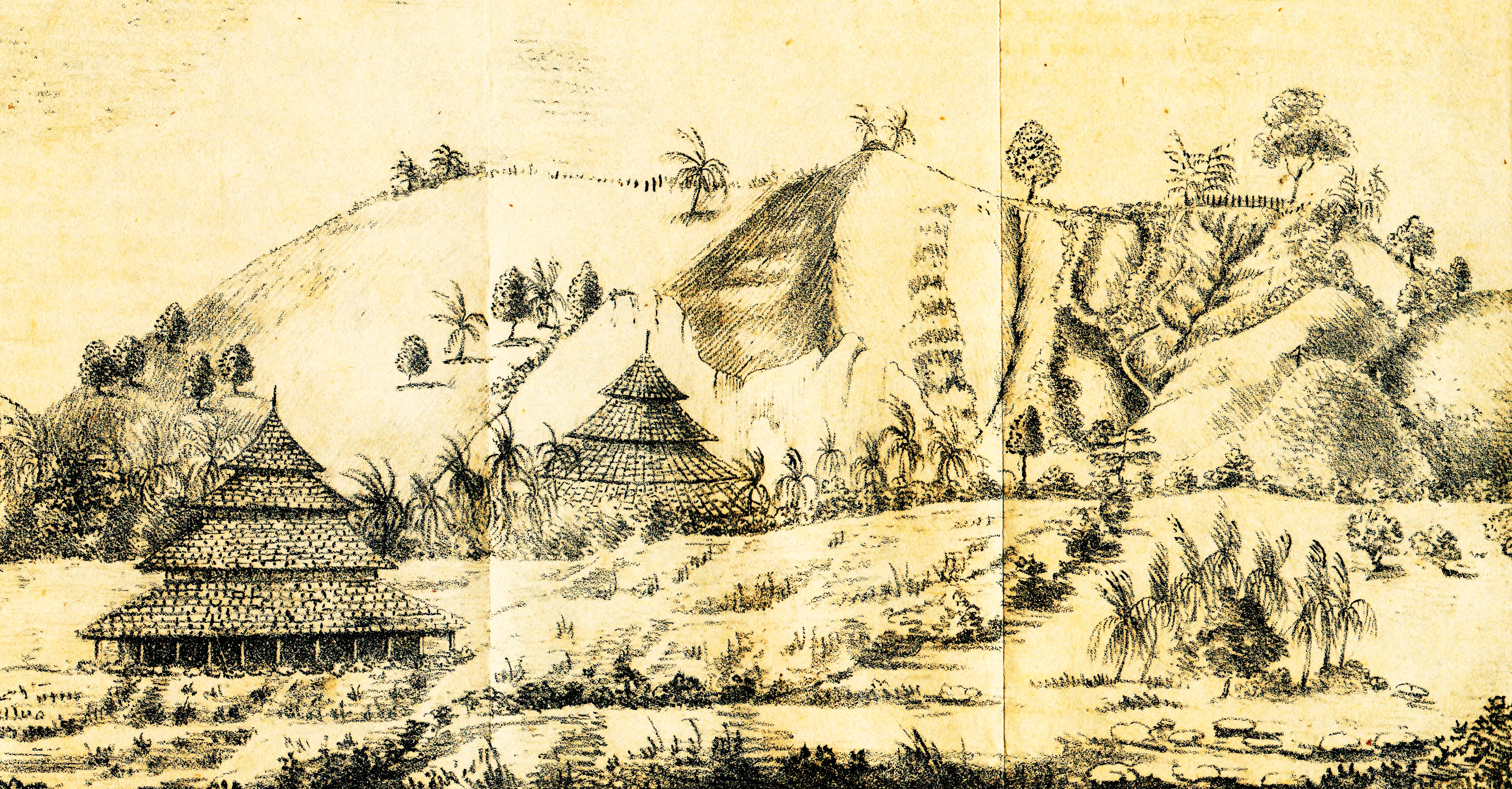 Bondjol